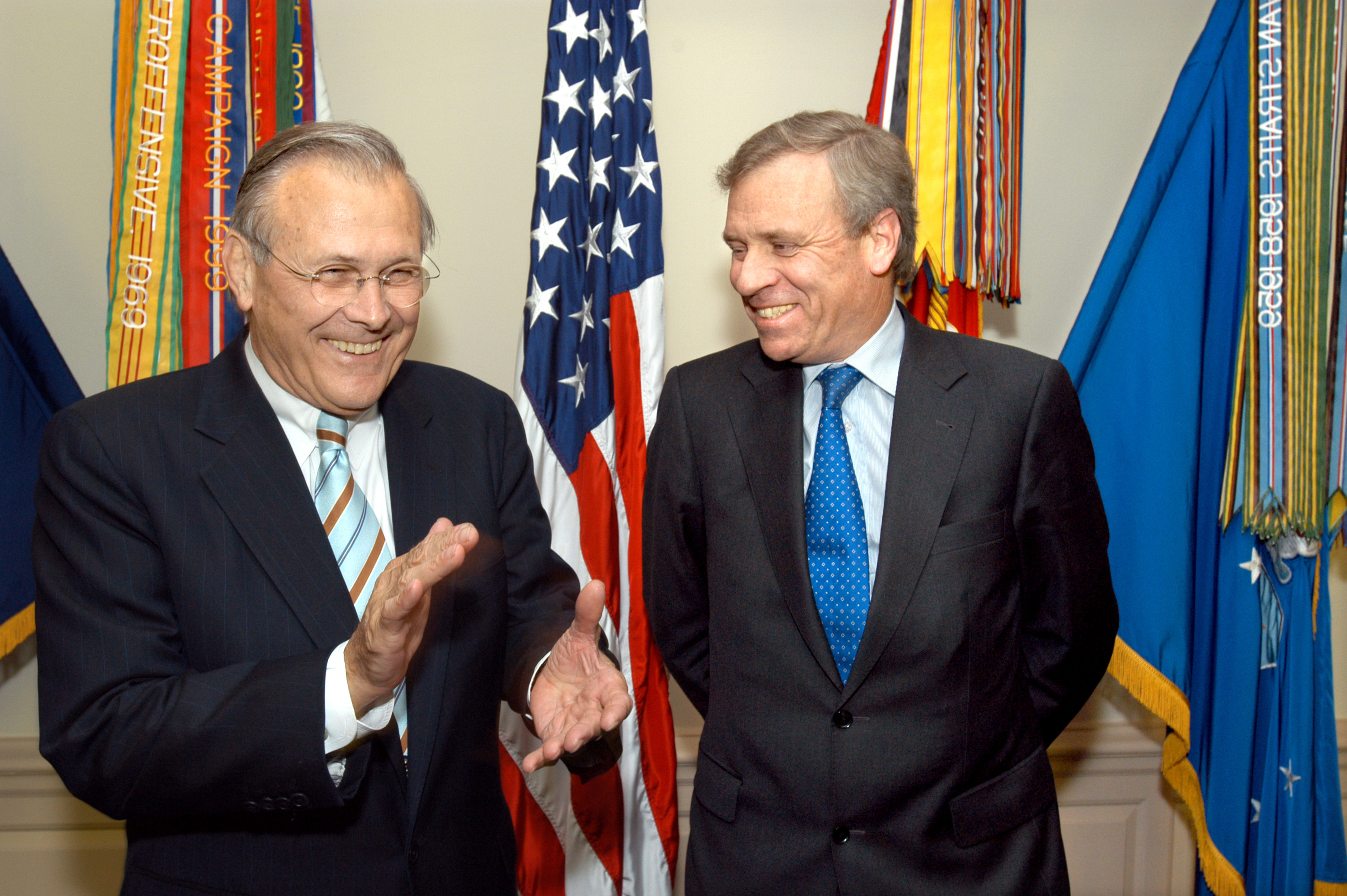 Secretary of Defense Donald H. Rumsfeld (left) shares a laugh with NATO Secretary General Jaap de Hoop Scheffer (right), of the Netherlands, before sitting down to a working lunch in the Pentagon on June 1, 2005. Rumsfeld and Scheffer will meet to discuss a broad range of international security issues relating to the Alliance.